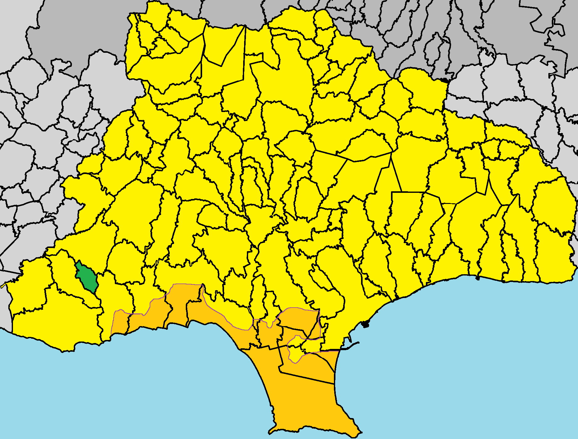 Agios Thomas, Cyprus in Limassol District.